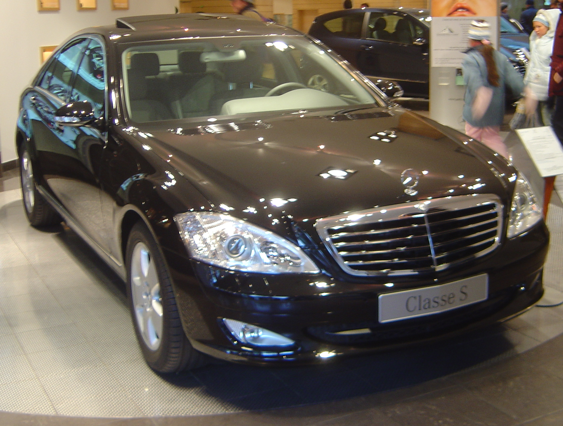 Mercedes-Benz car shown in their show-room on the Champs-Élysées, Paris, France